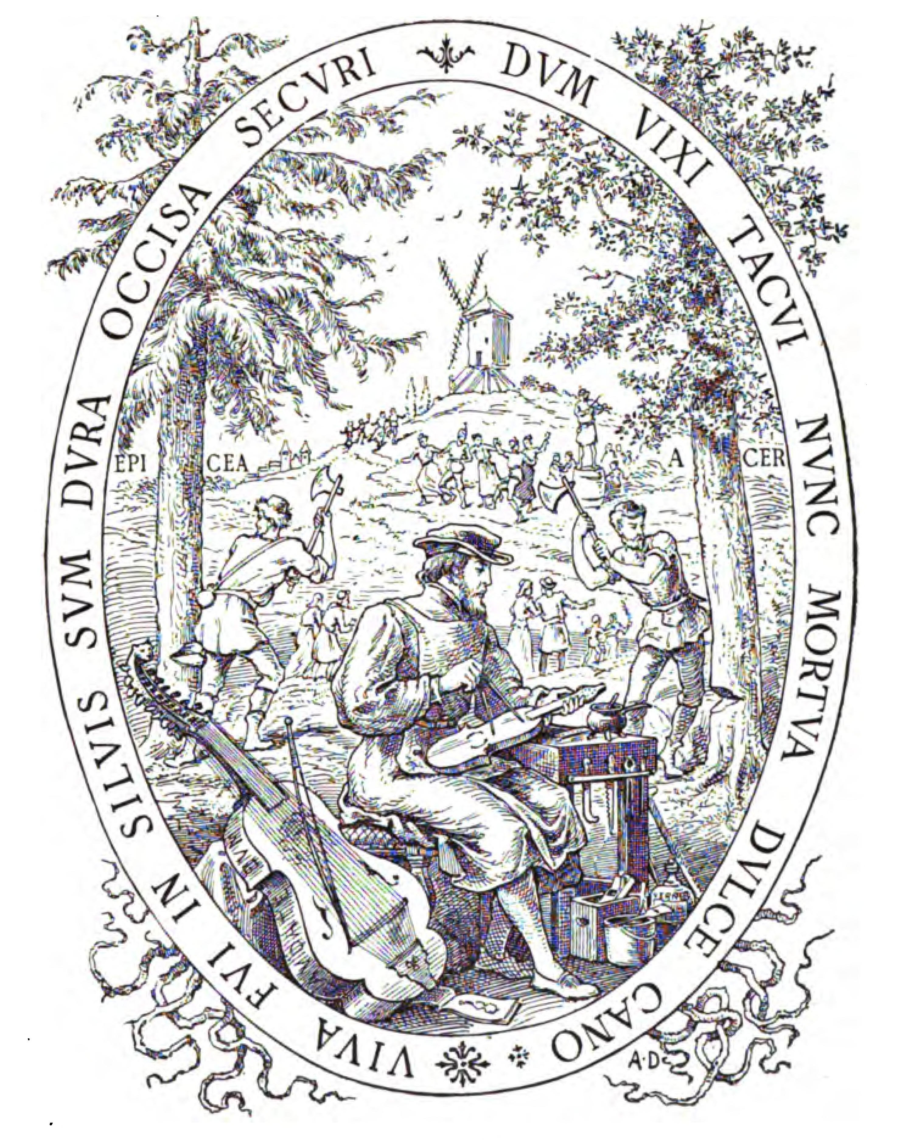 Title image of Auguste Tolbecque's "L'art du Luthier"